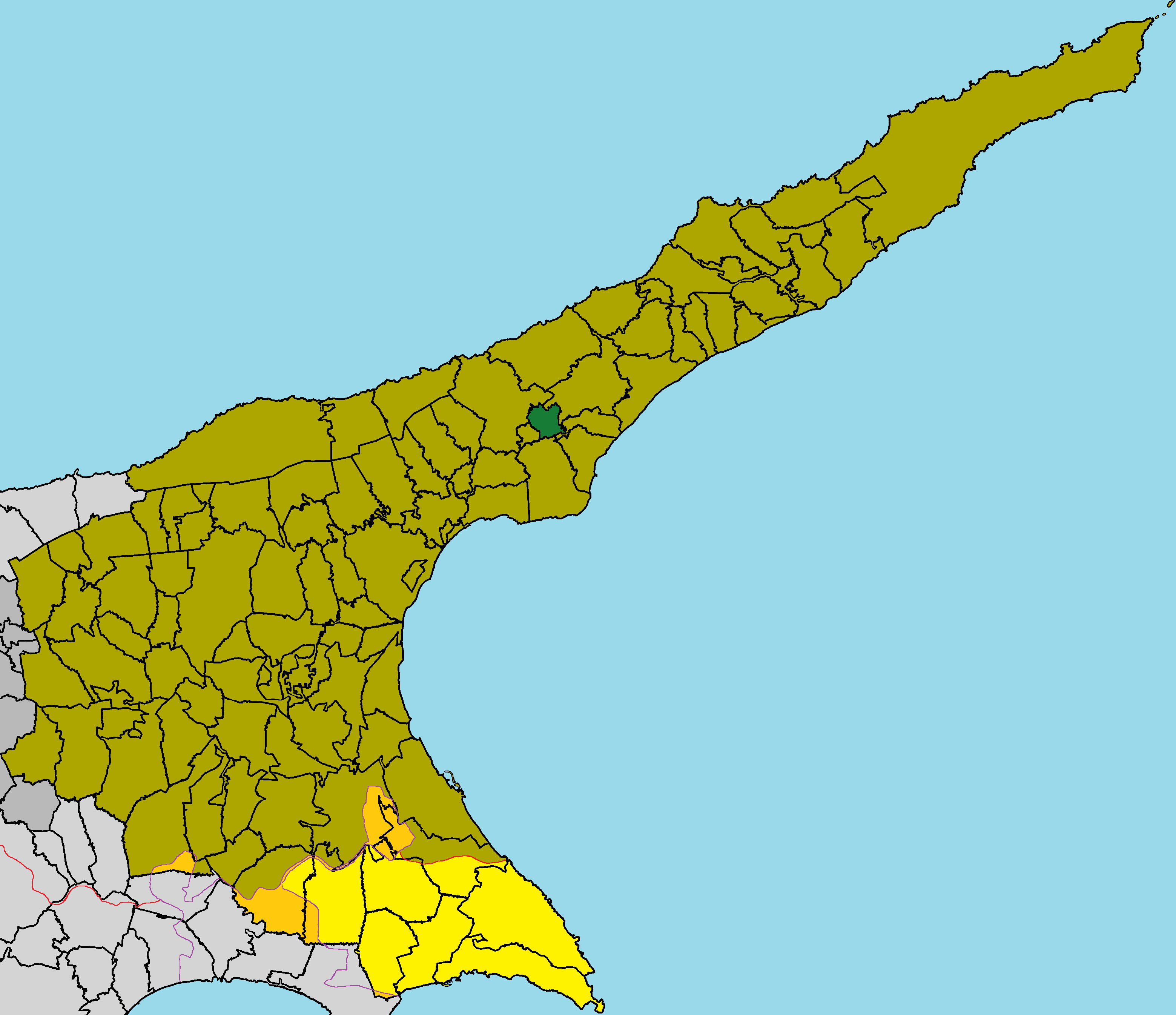 Komi Kepir in Famagusta District (de jure).